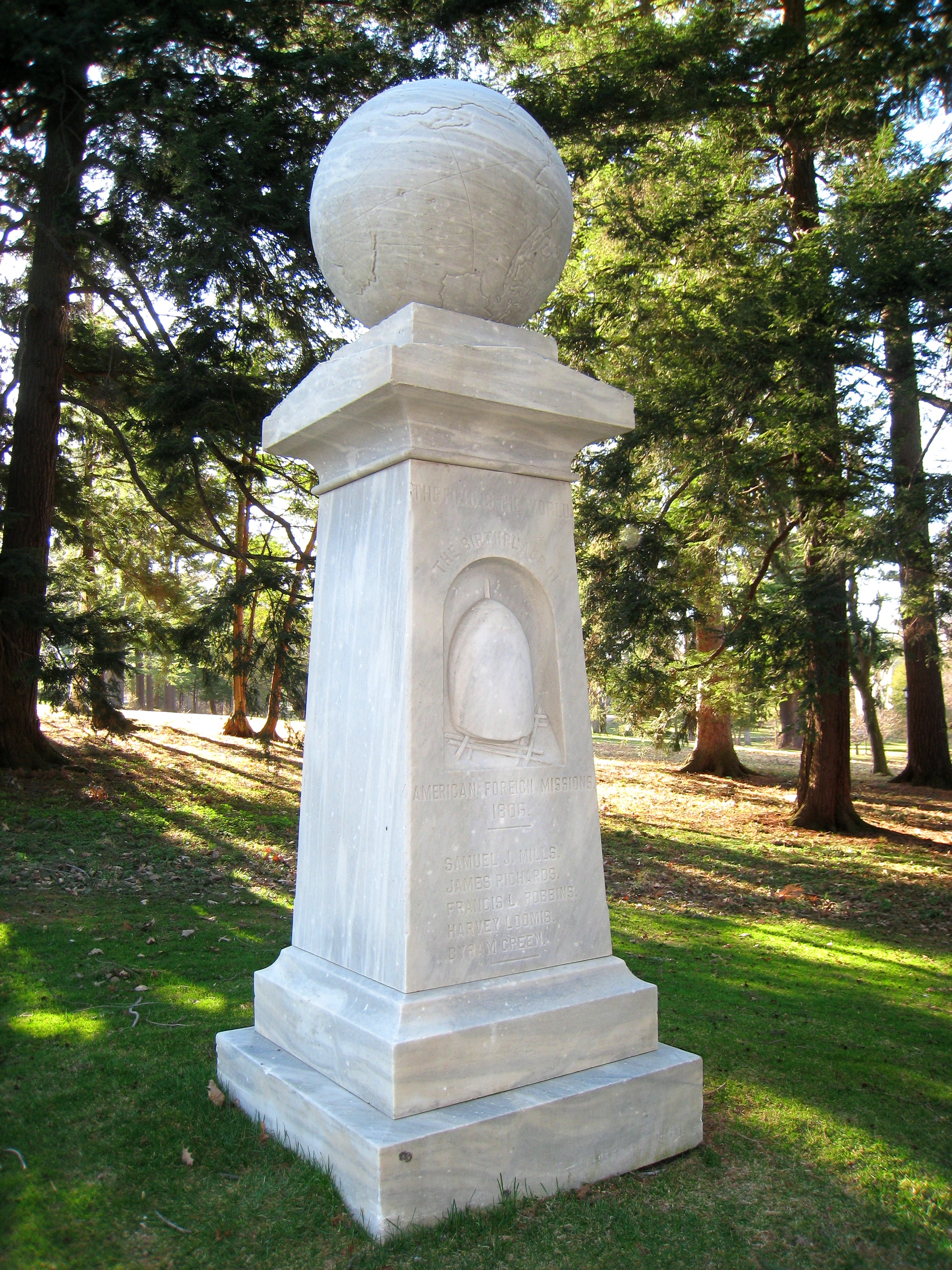 Williams College - Haystack Monument. Williamstown, Massachusetts, USA. The twelve-foot tall marble monument, quarried and crafted in the Berkshires, was dedicated by President Mark Hopkins following the Baccalaureate Discourse on Sunday, July 28, 1867.